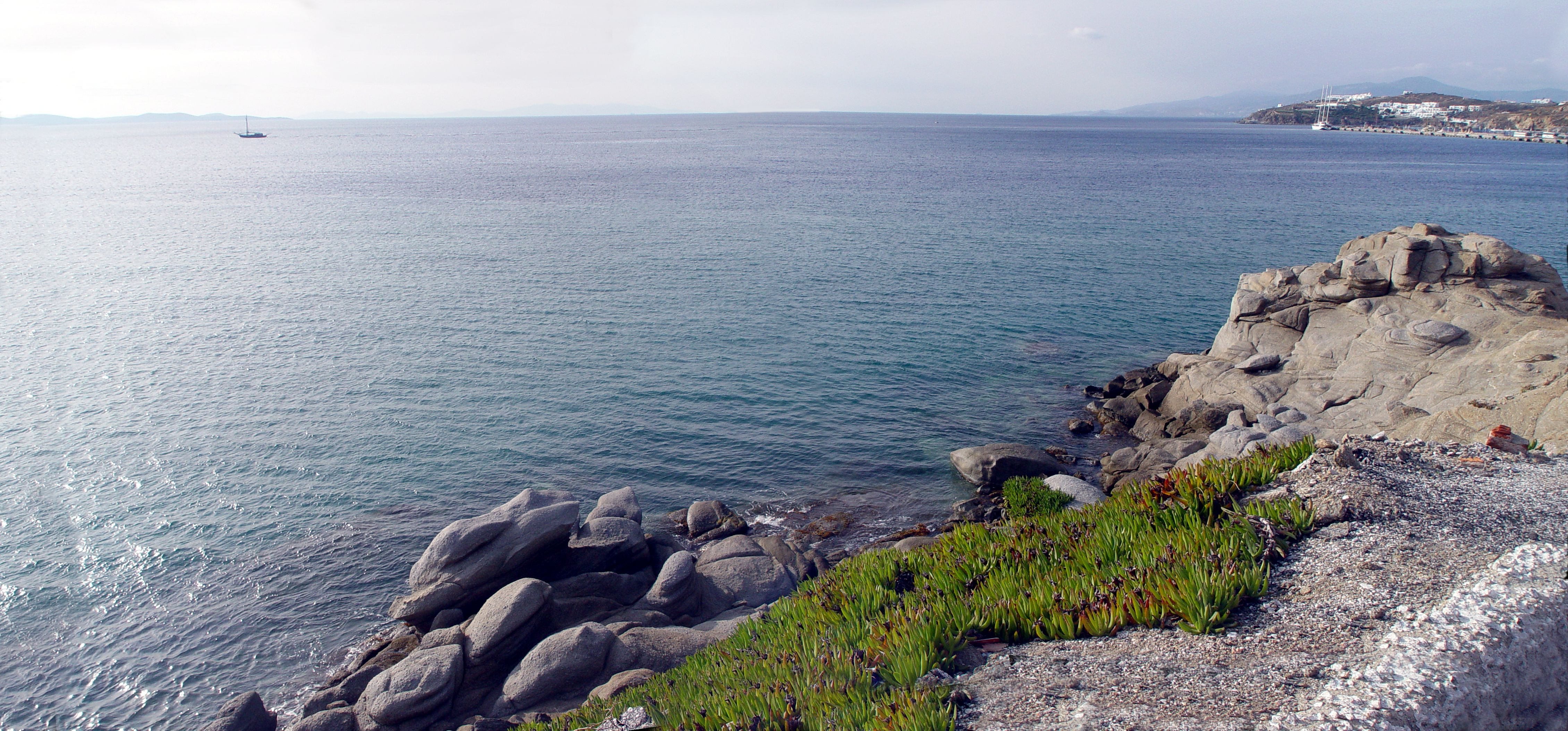 Between Chora - the capital - and the New Port of Mykonos, Greece. The stones and vegetation are characteristic of the island.